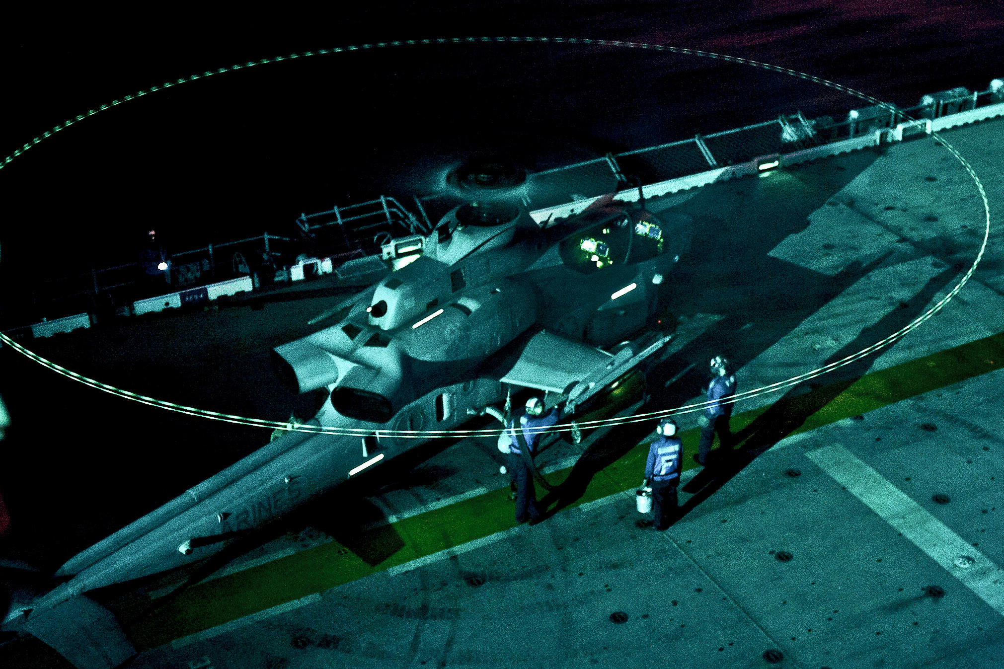 U.S. Navy sailors conduct the hot refueling of an AH-1 Cobra attack helicopter during night flight operations aboard the USS Makin Island in the Indian Ocean on Dec. 30, 2011. The sailors are aviation boatswain mates and the Cobra crew is assigned to Marine Medium Helicopter Squadron 268 Reinforced. The Makin Island is on its maiden deployment and conducting operations in the U.S. 7th Fleet area of responsibility.